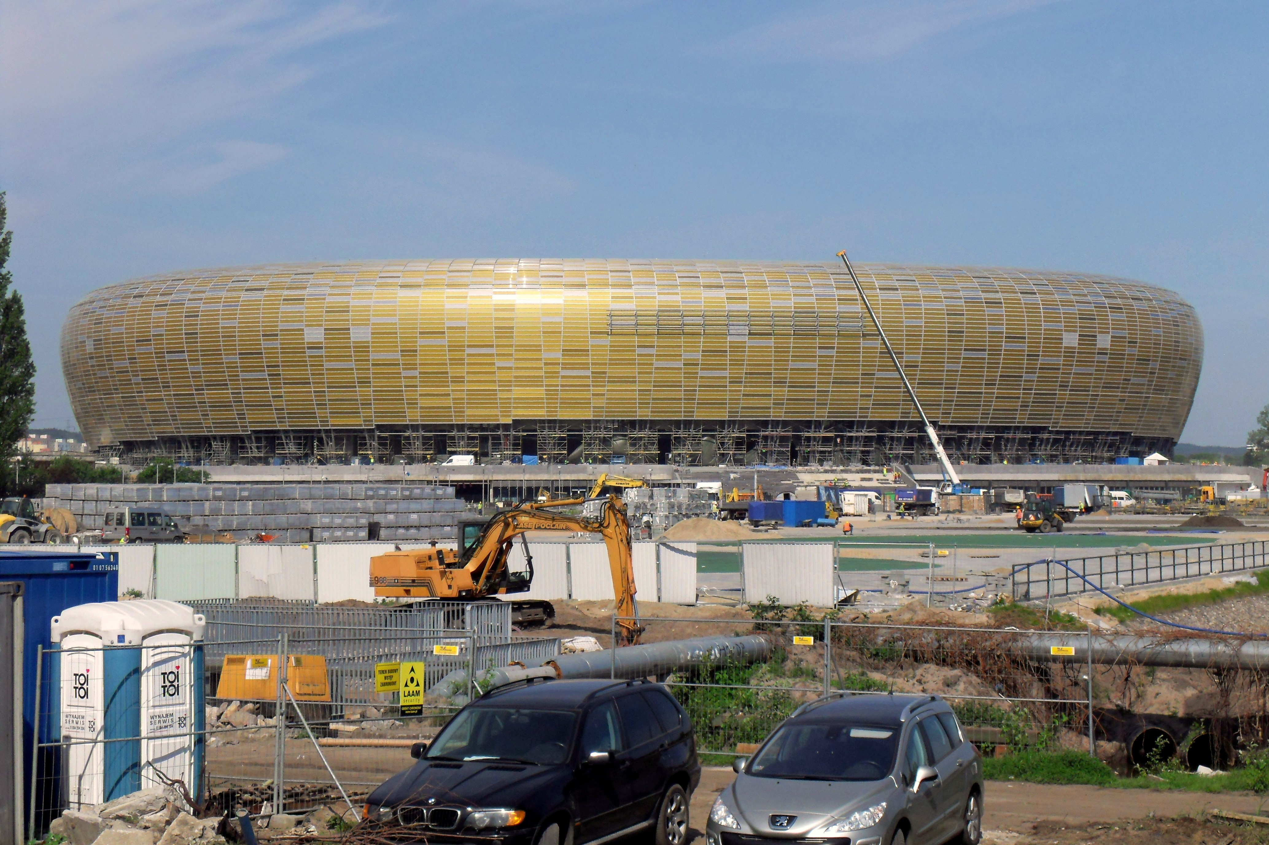 The football stadium in Gdańsk Letnica (Poland) under construction, May 2011.